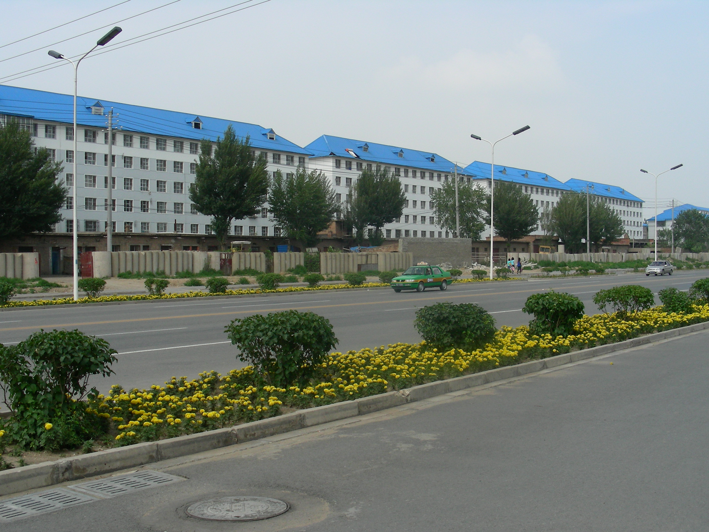 Genghis Khan Drive, Hohhot, Inner Mongolia.